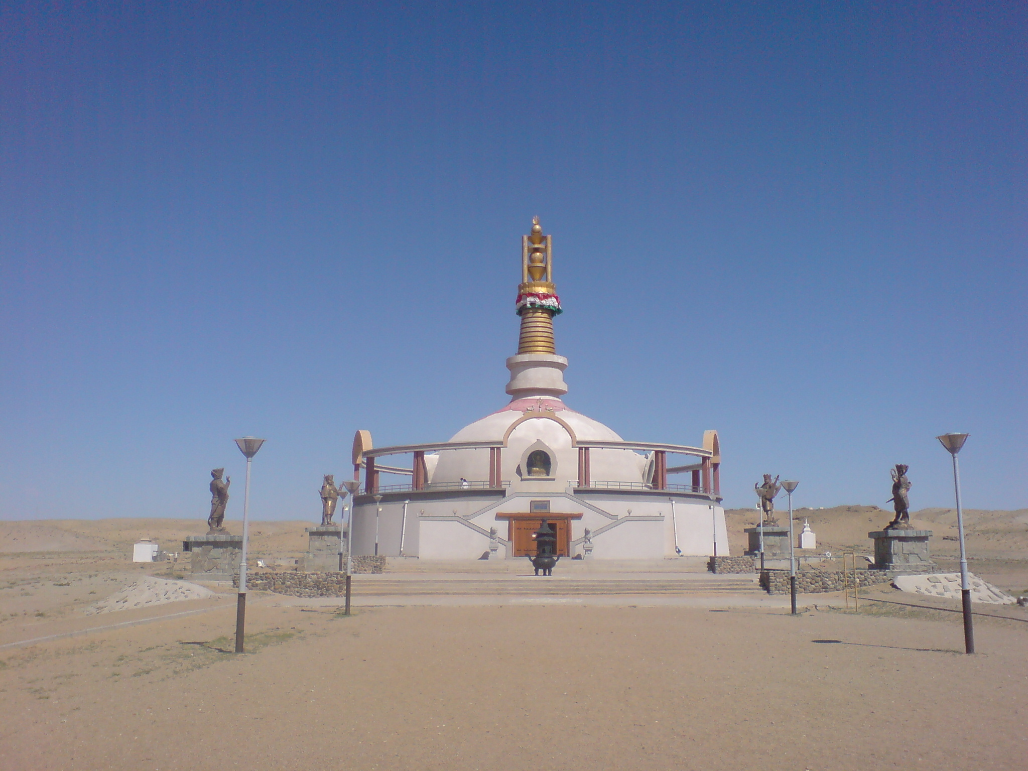 Ступа Увгэн, Хамарын-хийд, Дорноговь, МонголияМонгол: Өвгөн суварга, Хамарын хийд, Дорноговь, Монгол